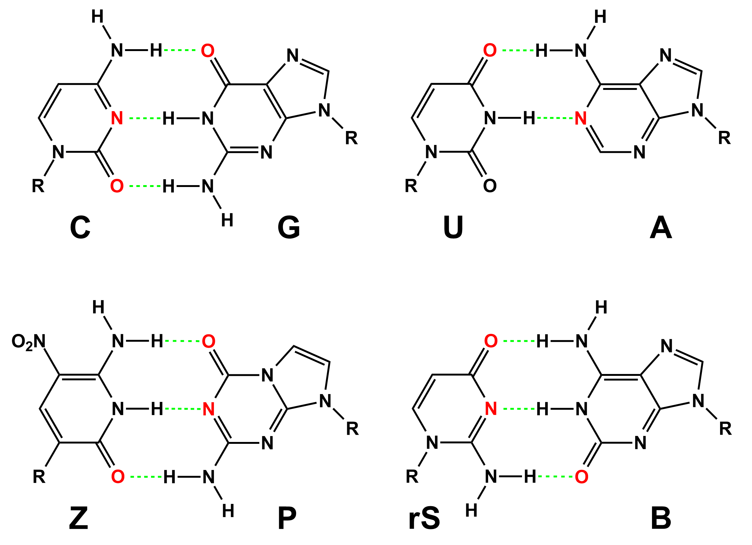 Hachimoji RNA hydrogen bonds are depicted as dashed green lines, with acceptor atoms shown in red. Nucleobase Z is 6-amino-5-nitropyridin-2-ol, P is 5-aza-7-deazaguanine, S in rS is isocytosine and B is isoguanine.